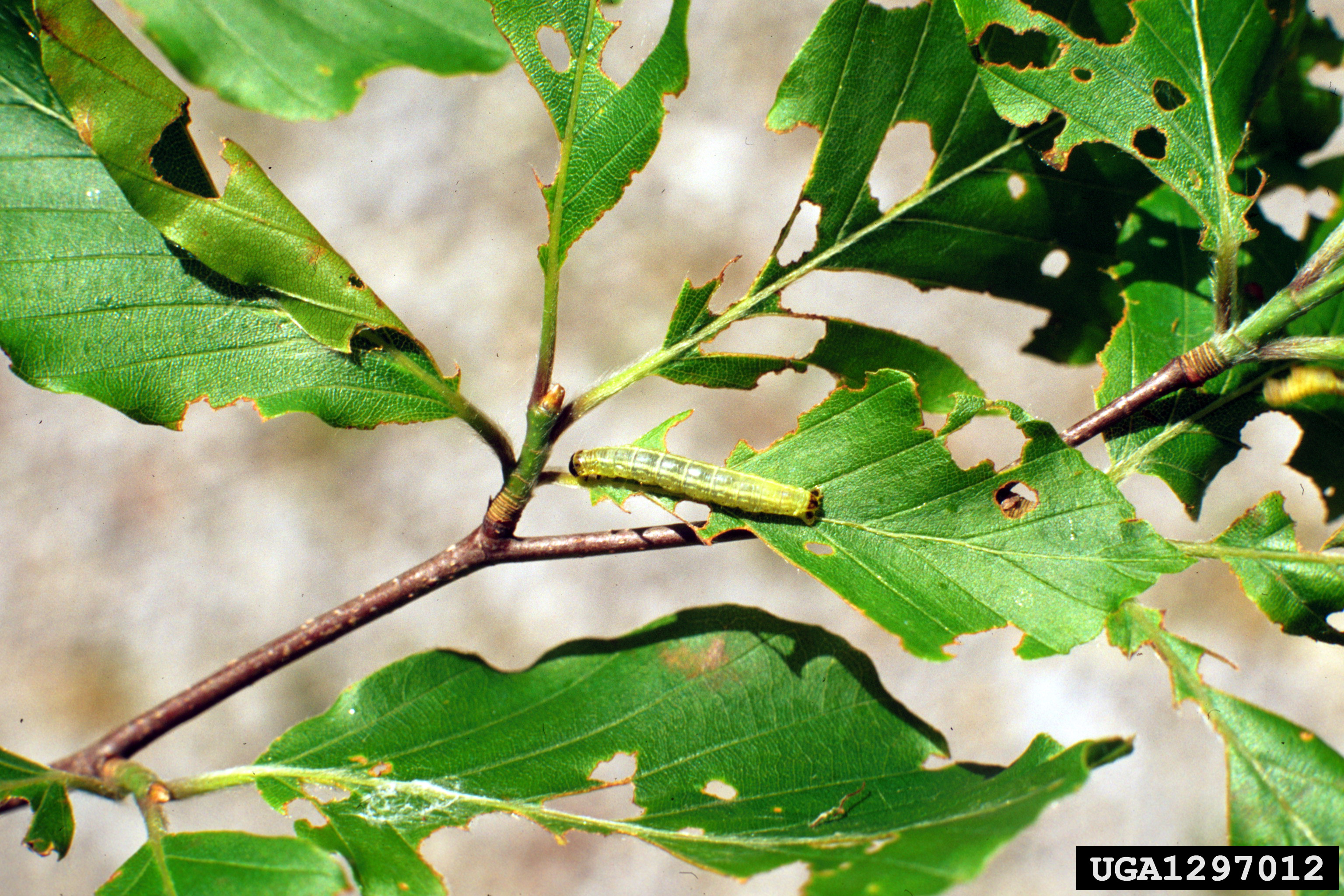 Caterpillar of Operophtera fagata